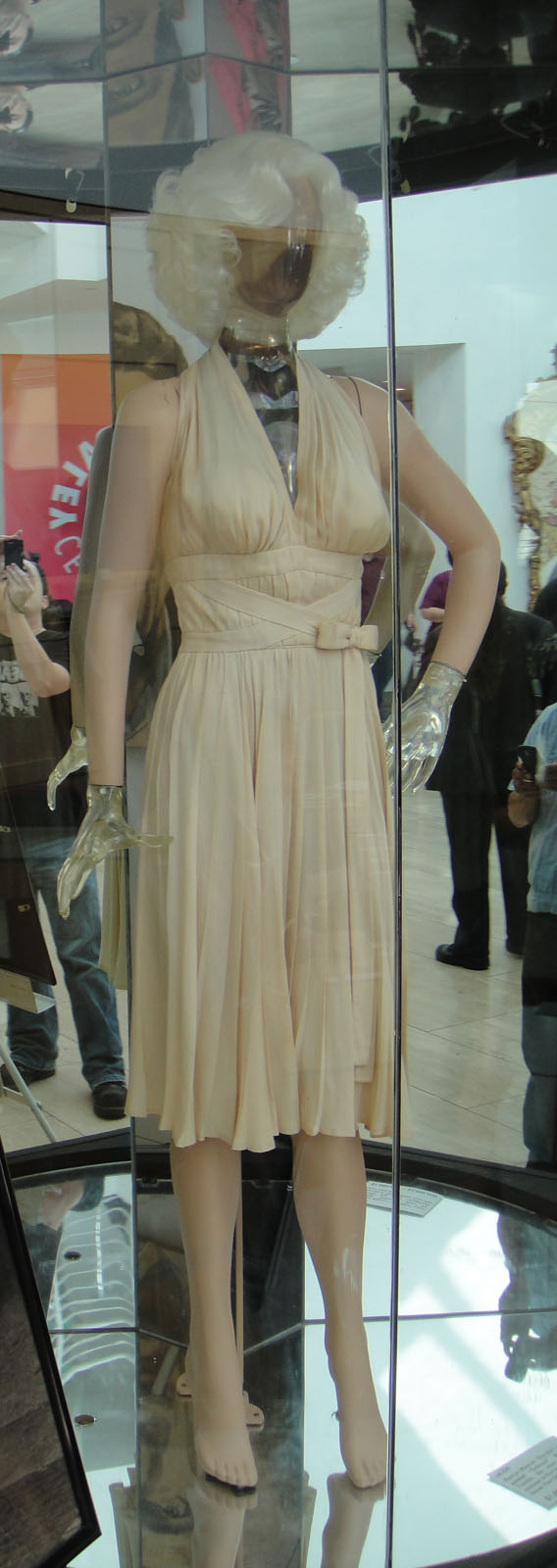 Marilyn Monroe ivory pleated dress from the film The Seven Year Itch at the Debbie Reynolds Auction Breaks Up Historic Hollywood Collection (The Paley Center for Media in Beverly Hills, Los Angeles, CA, USA).